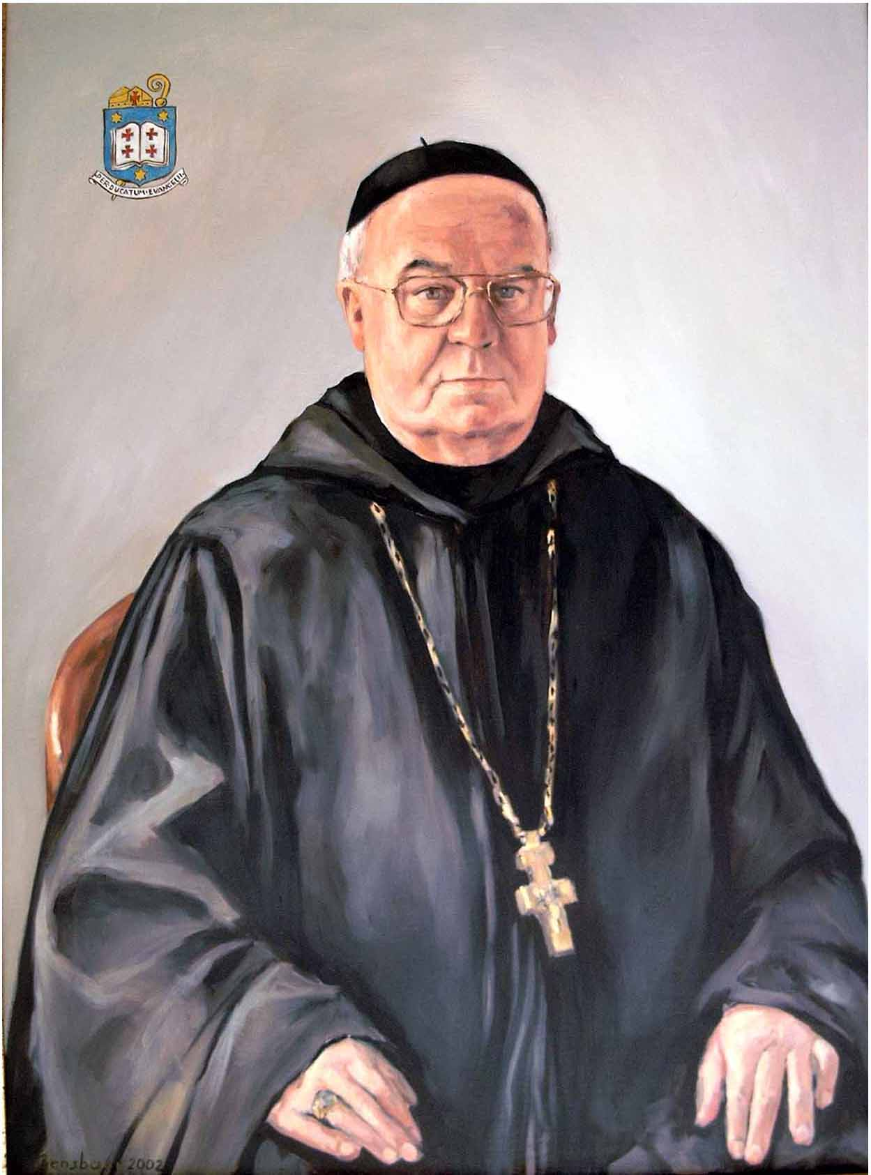 Martin Gensbaur, Porträt Bernhard Maria Lambert, für die Porträtgalerie der Äbte des Klosters Scheyern, Öl/Lwd., 2002